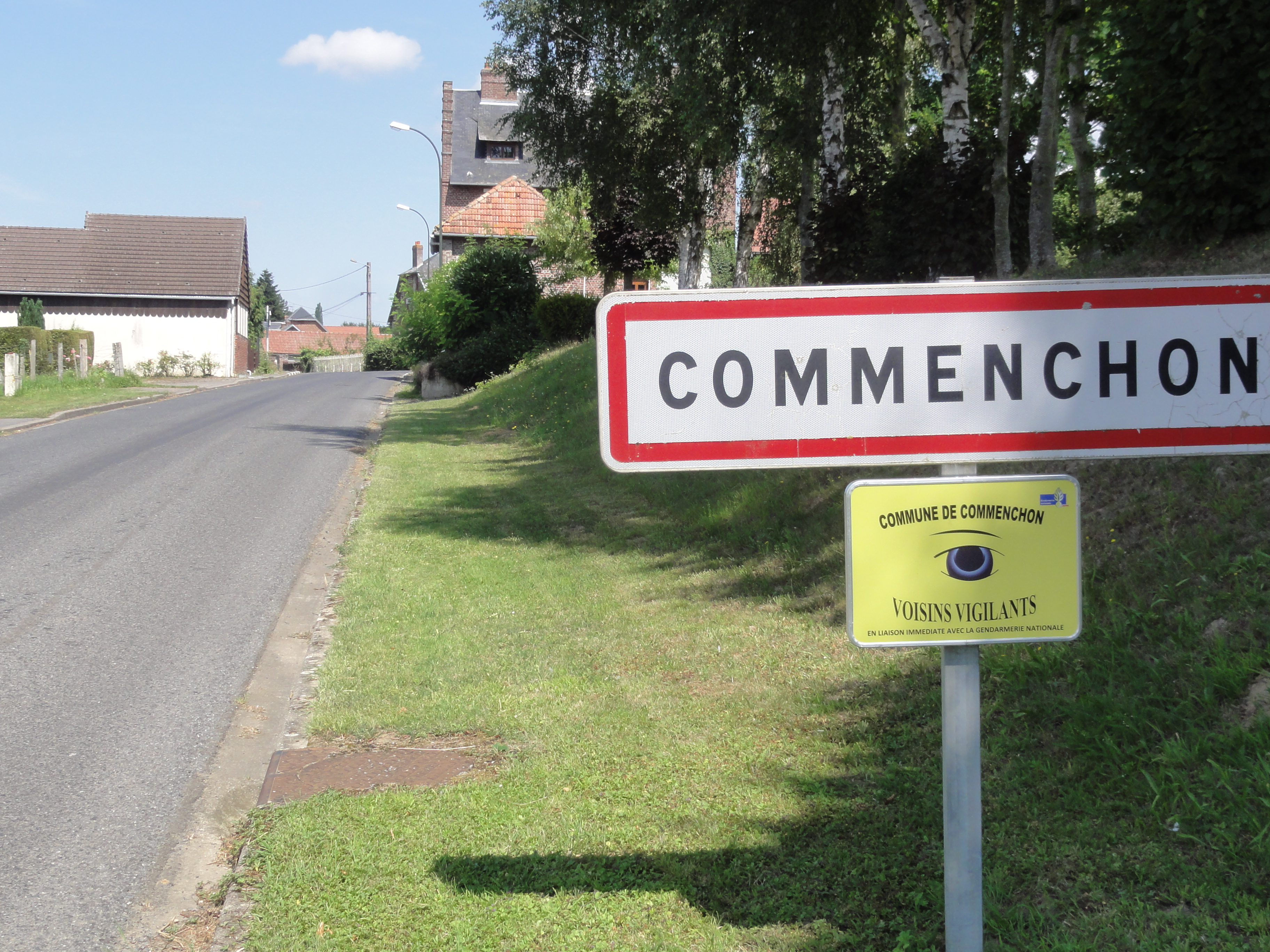 Commenchon (Aisne) city limit sign